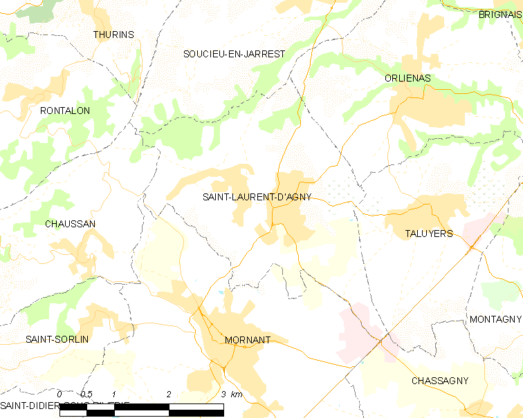 Map of French municipality